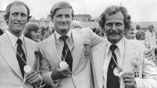 The Picture shows (From left to right) Poul Richard Hoj Jensen (Helmsman), Valdemar Bandolowski and Erik Hansen just after the medal ceremony in Kingston, Ontario.